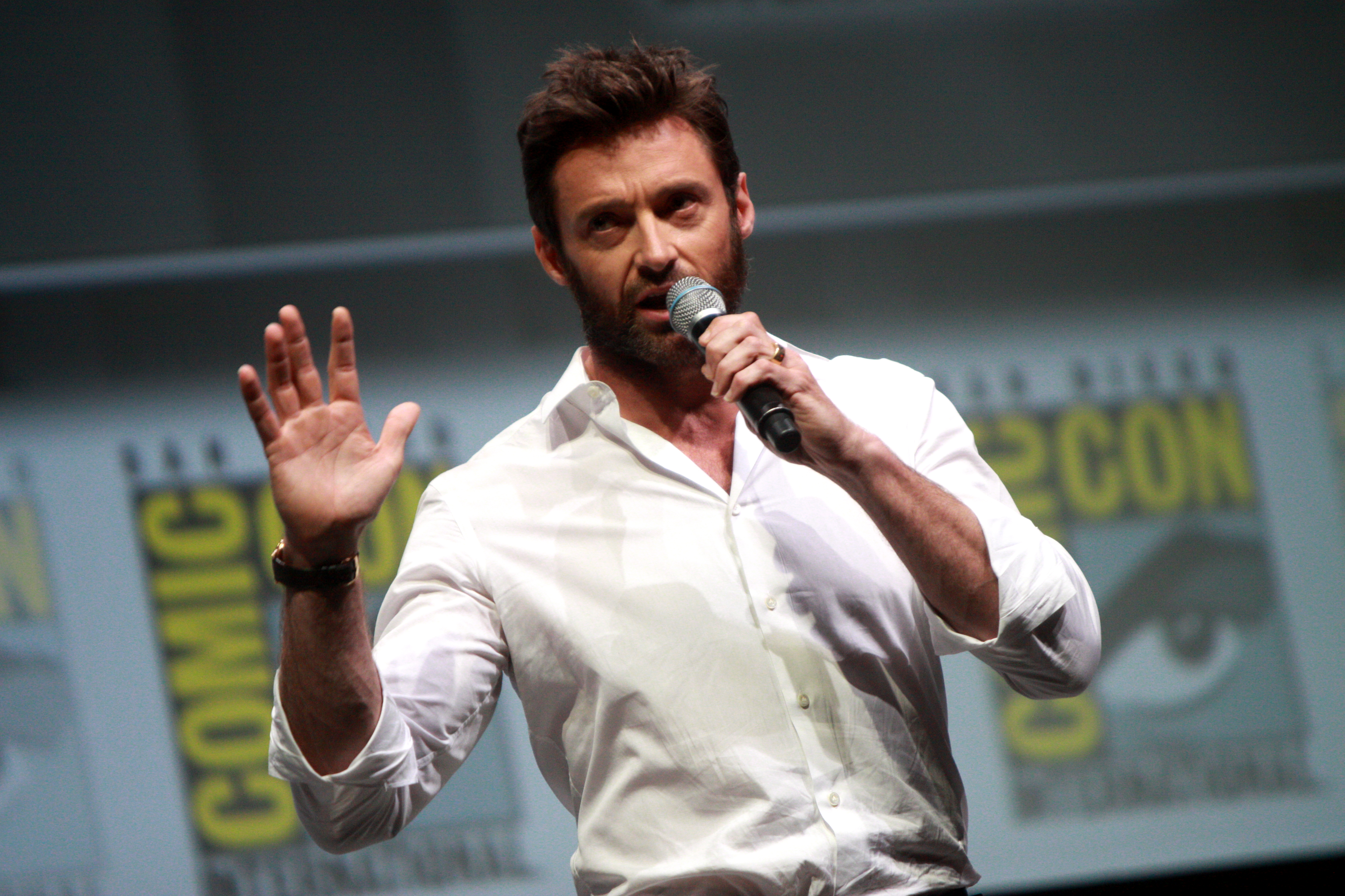 Hugh Jackman at the 2013 San Diego Comic Con International in San Diego, California.